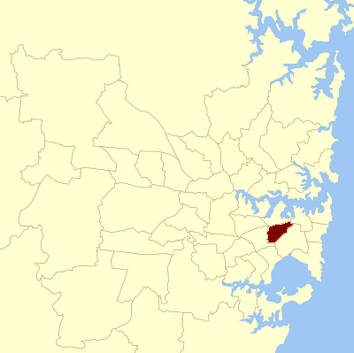 Location of the New South Wales Legislative Assembly electoral district within Sydney in New South Wales. Reference: [1]